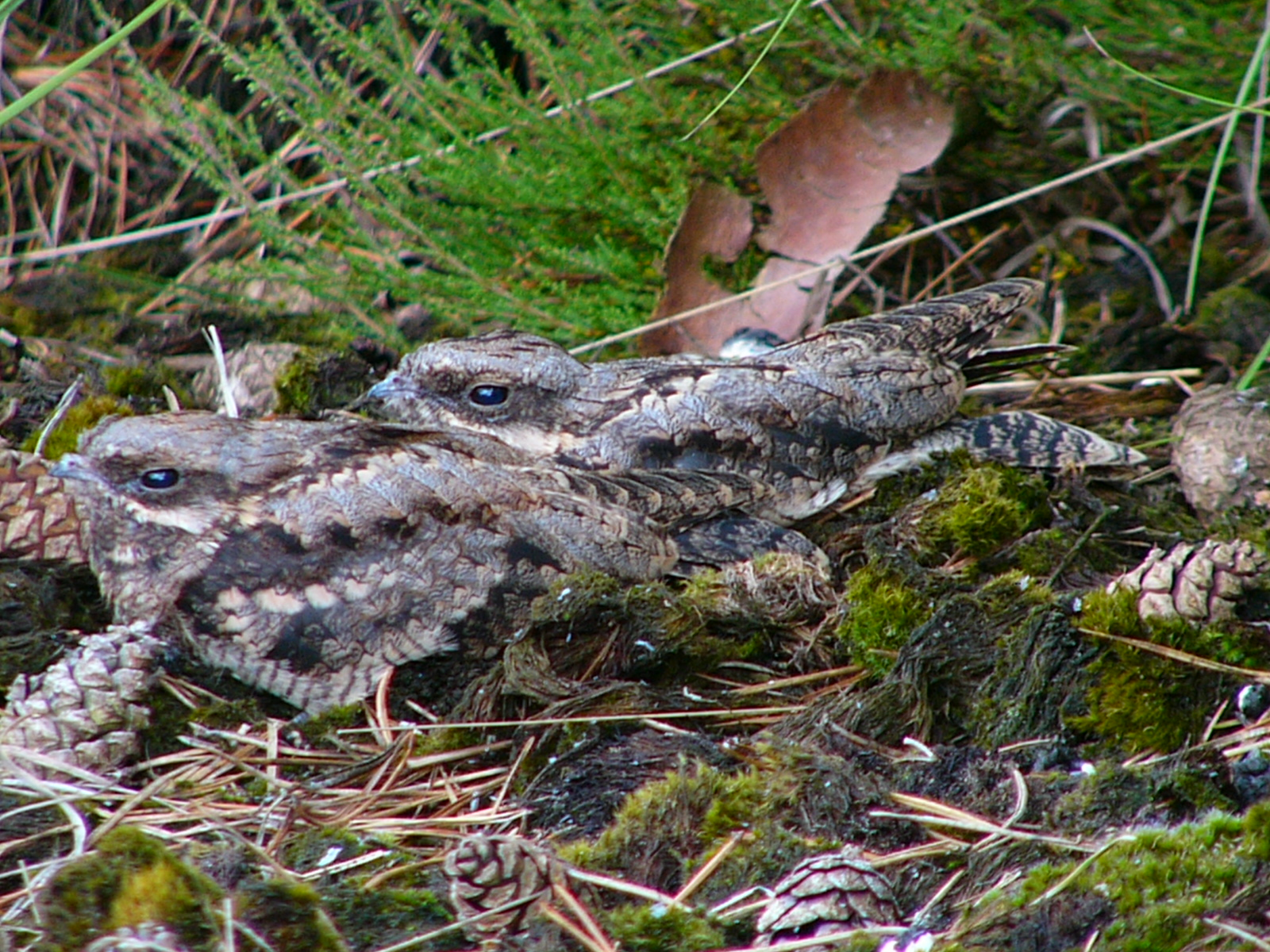 nightjar